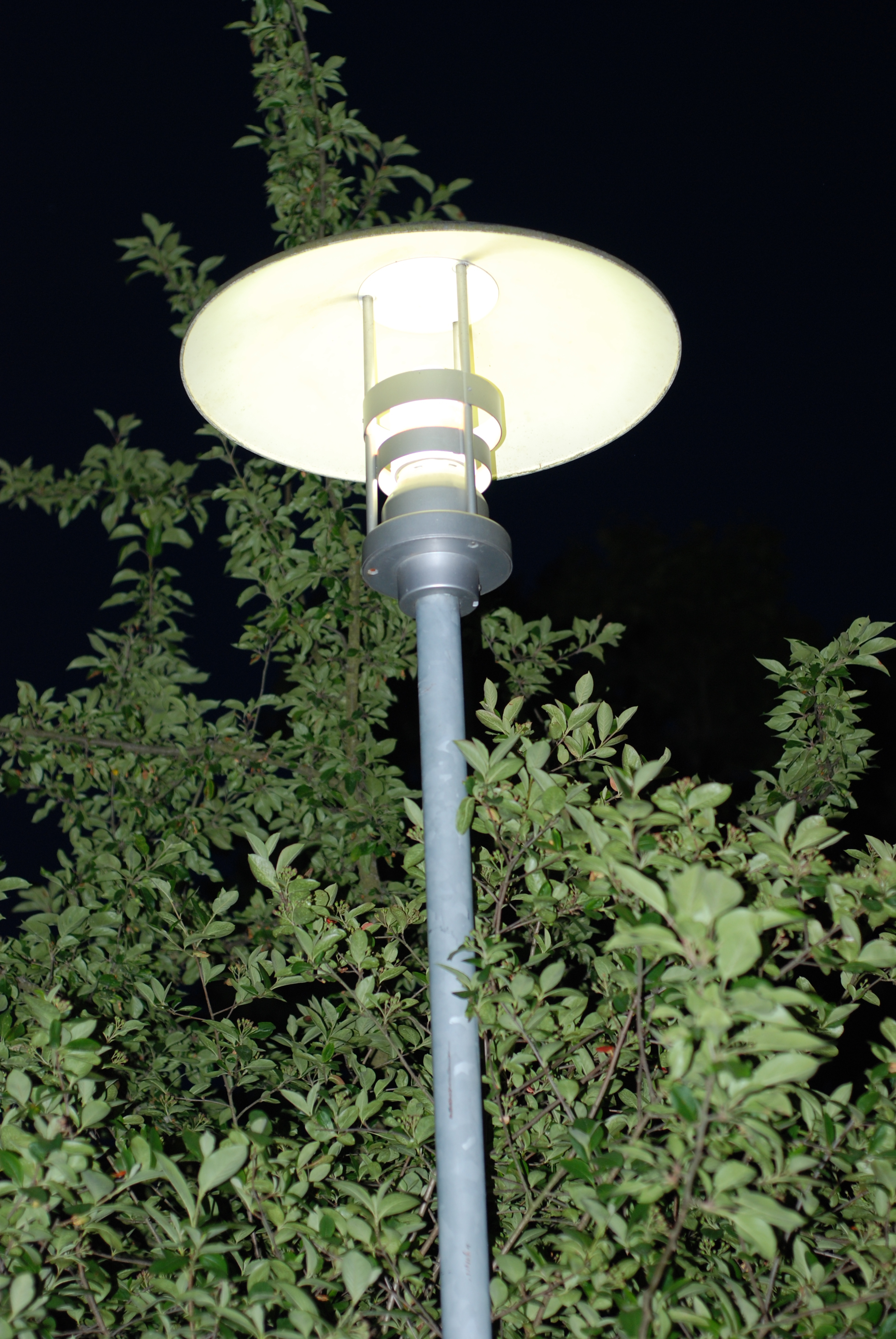 Streetlight by night, shining on a bush.